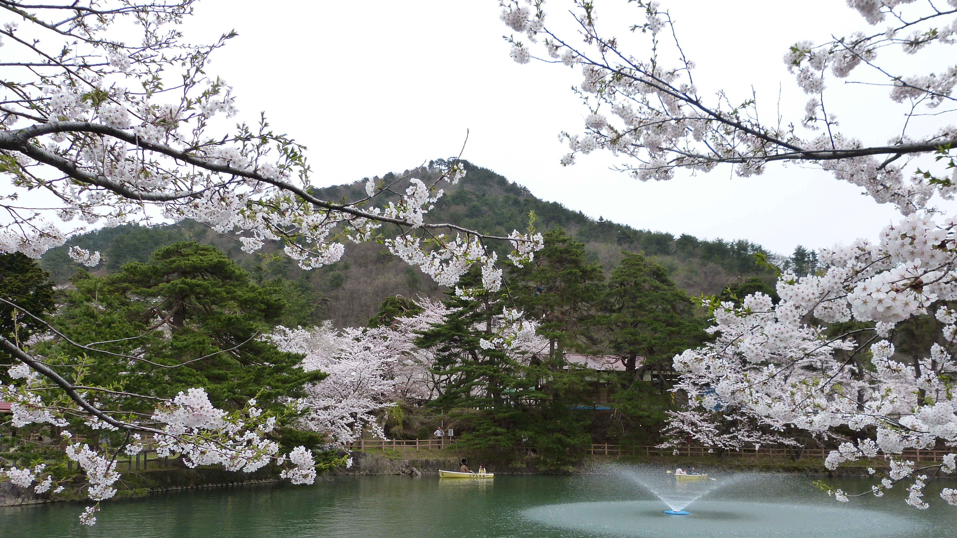 Cherry trees in Mato park (Japan's Top 100 famous place of cherry trees) ,Akita prefecture,Japan